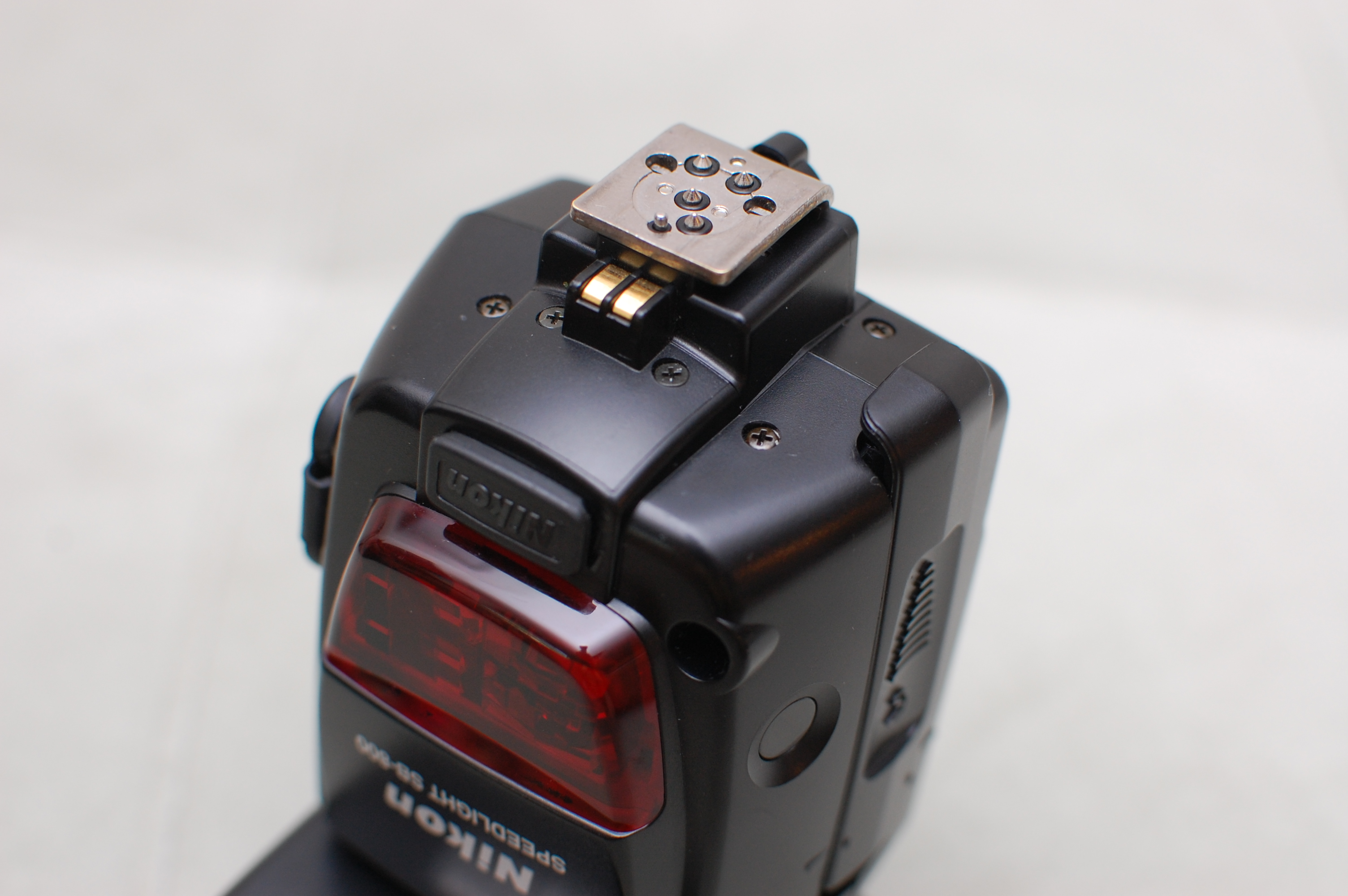 A Nikon type flash shoe contact on a Nikon SB-800 digital flash unit.